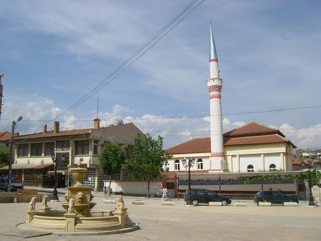 The Mosque in the village of Ablanitsa.